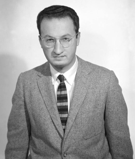 Dr. Donald Glaser was awarded the Nobel Prize in physics in 1960 for his invention of the bubble chamber.